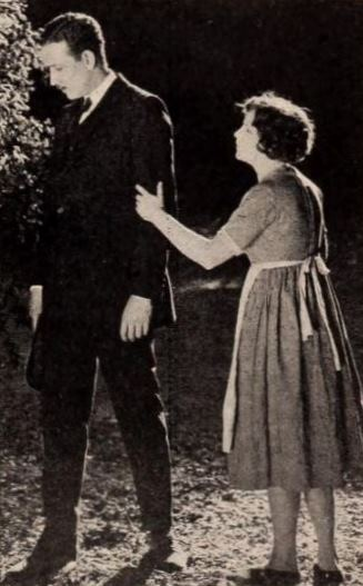 Still from the American film Flame of Youth (1920) with Philo McCullough and Shirley Mason, on page 81 of the January 8, 1921 Exhibitors Herald.